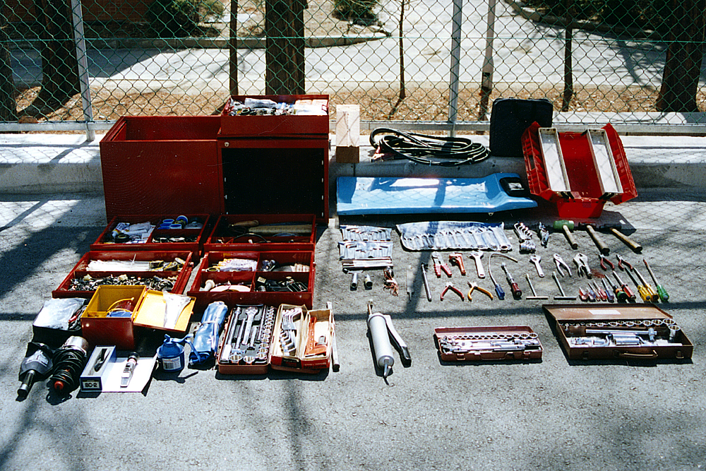 Tools.